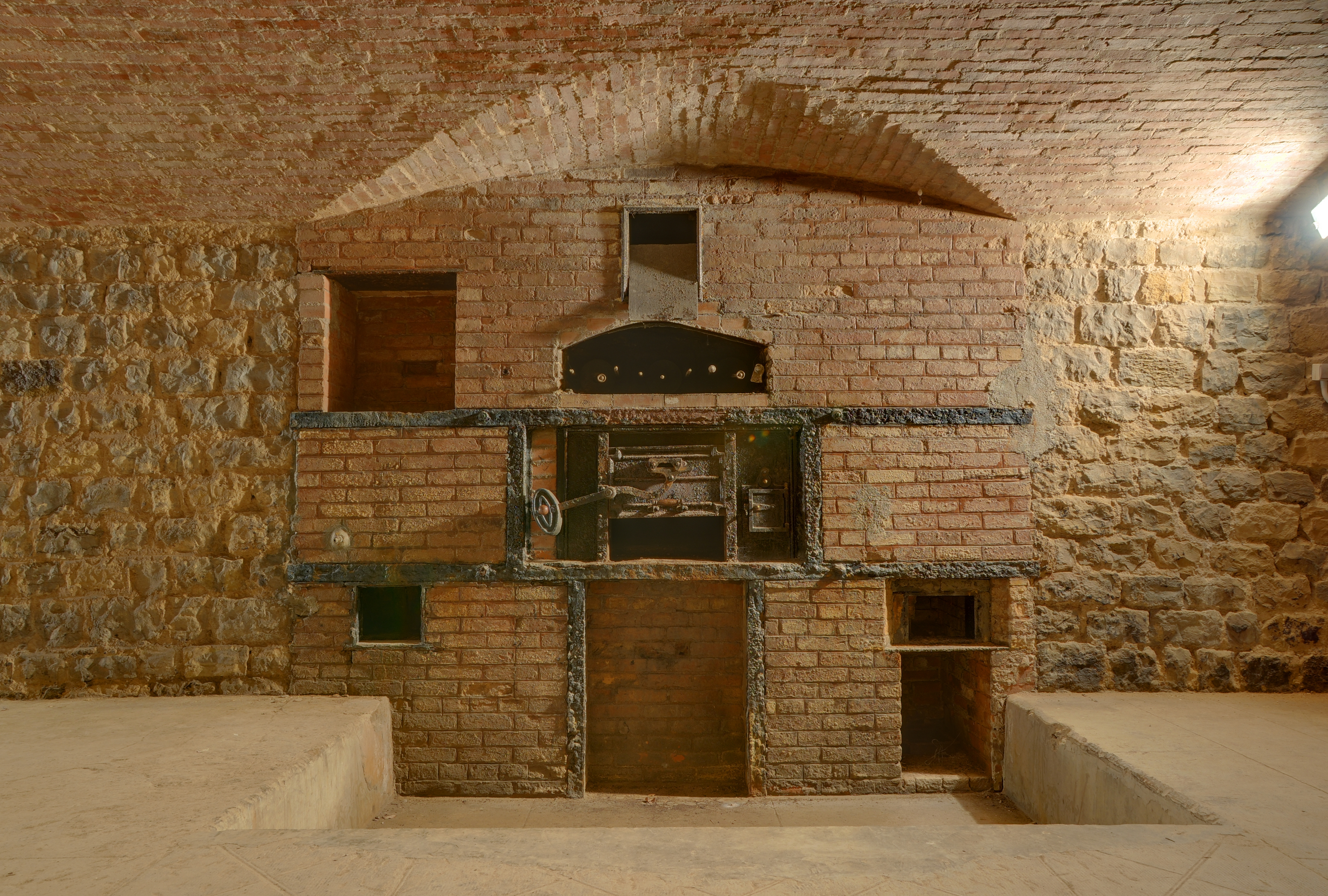 La boulangerie. Bart hill fortifications (HDR).